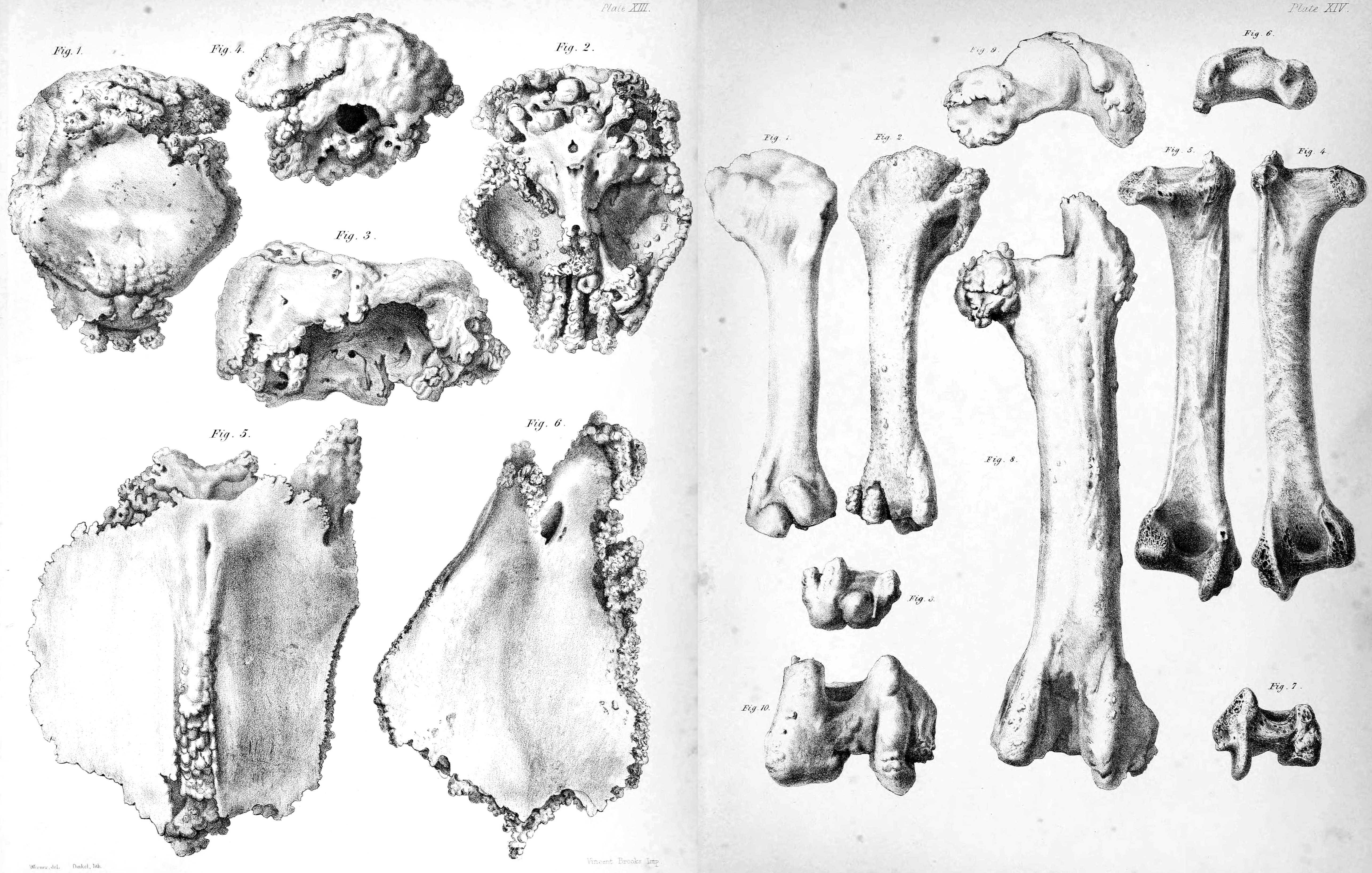 The first known stalagmite-encrusted fossil remains of the Rodrigues Solitaire (cranial, sternal, humeral and femoral bones), found in 1789.